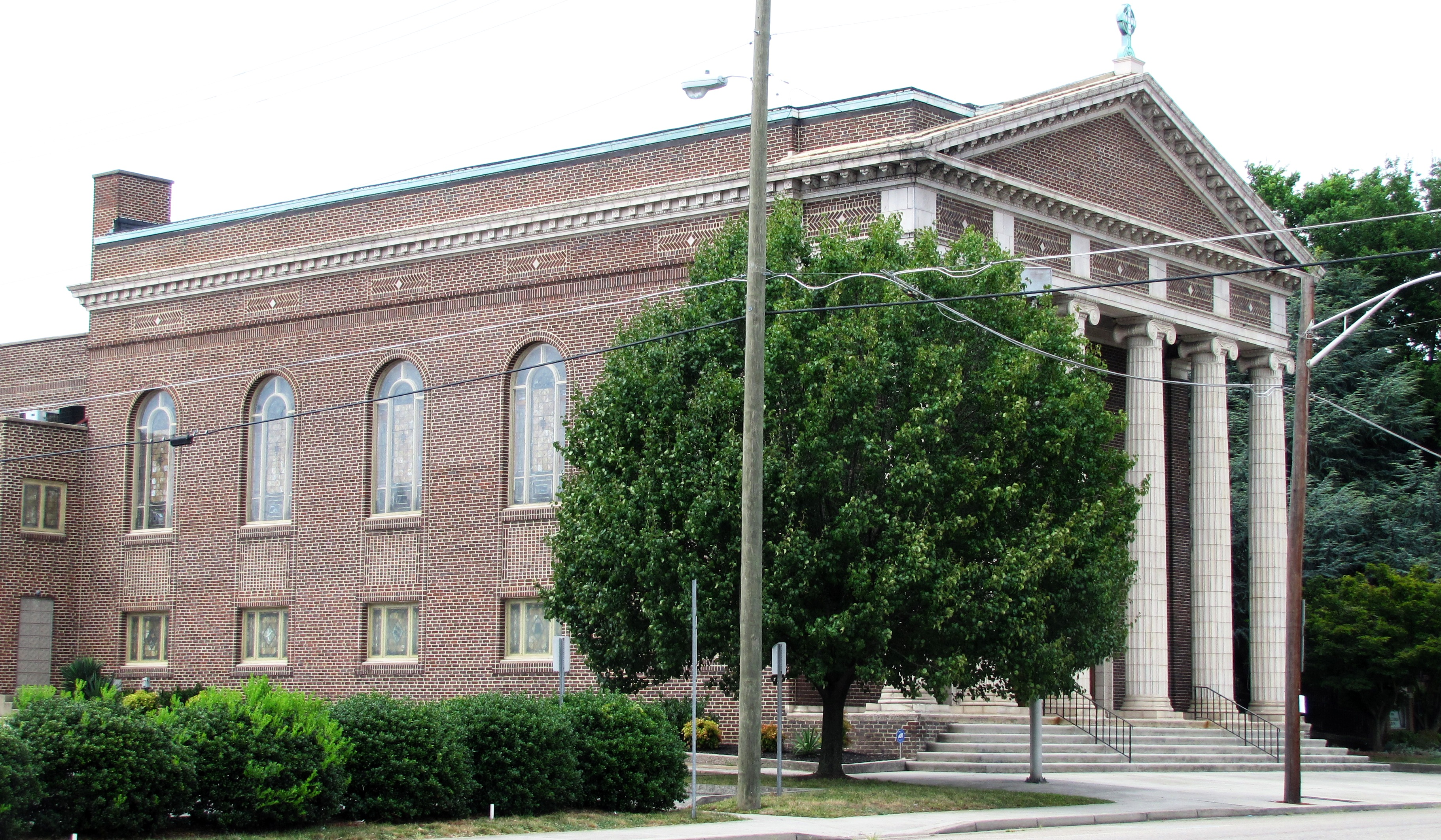 First Christian Church (211 West Fifth Avenue) in Knoxville, Tennessee, USA. Built in 1914 and designed by architect Charles Barber, this church is now a contributing property within the Emory Place Historic District.